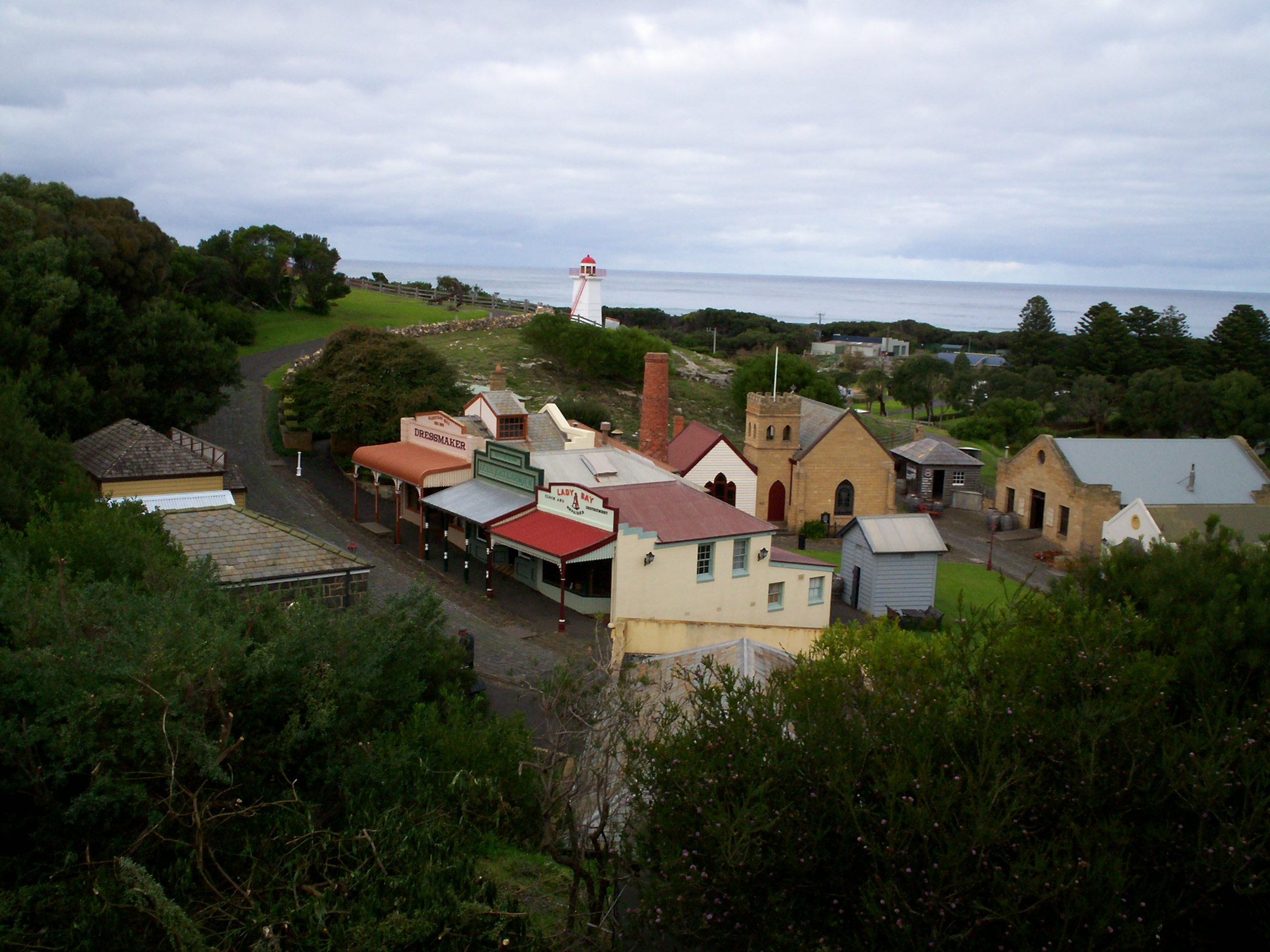 Flagstaff Hill Maritime Museum, Warrnambool, Victoria. Photo taken by myself.